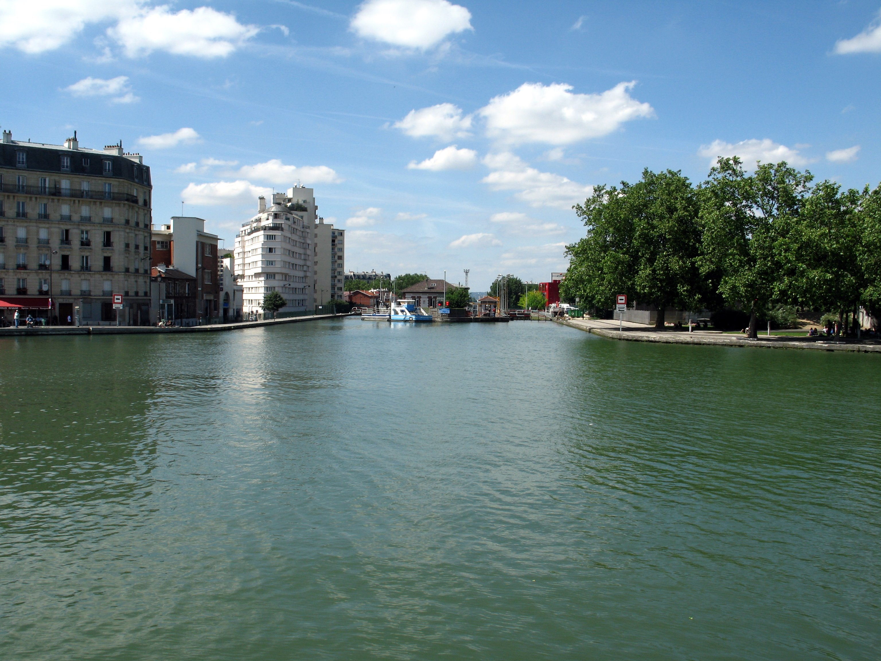 Canal Saint-Martin/Canal Saint-Denis